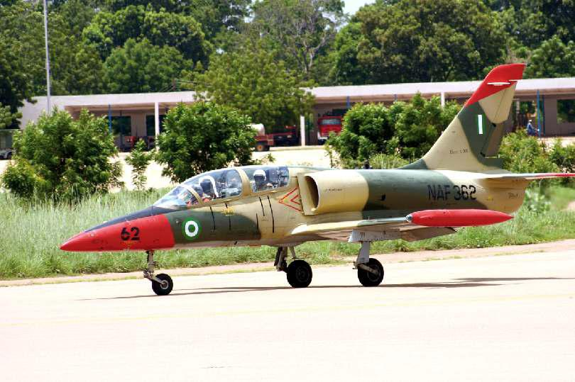 Nigerian Jet